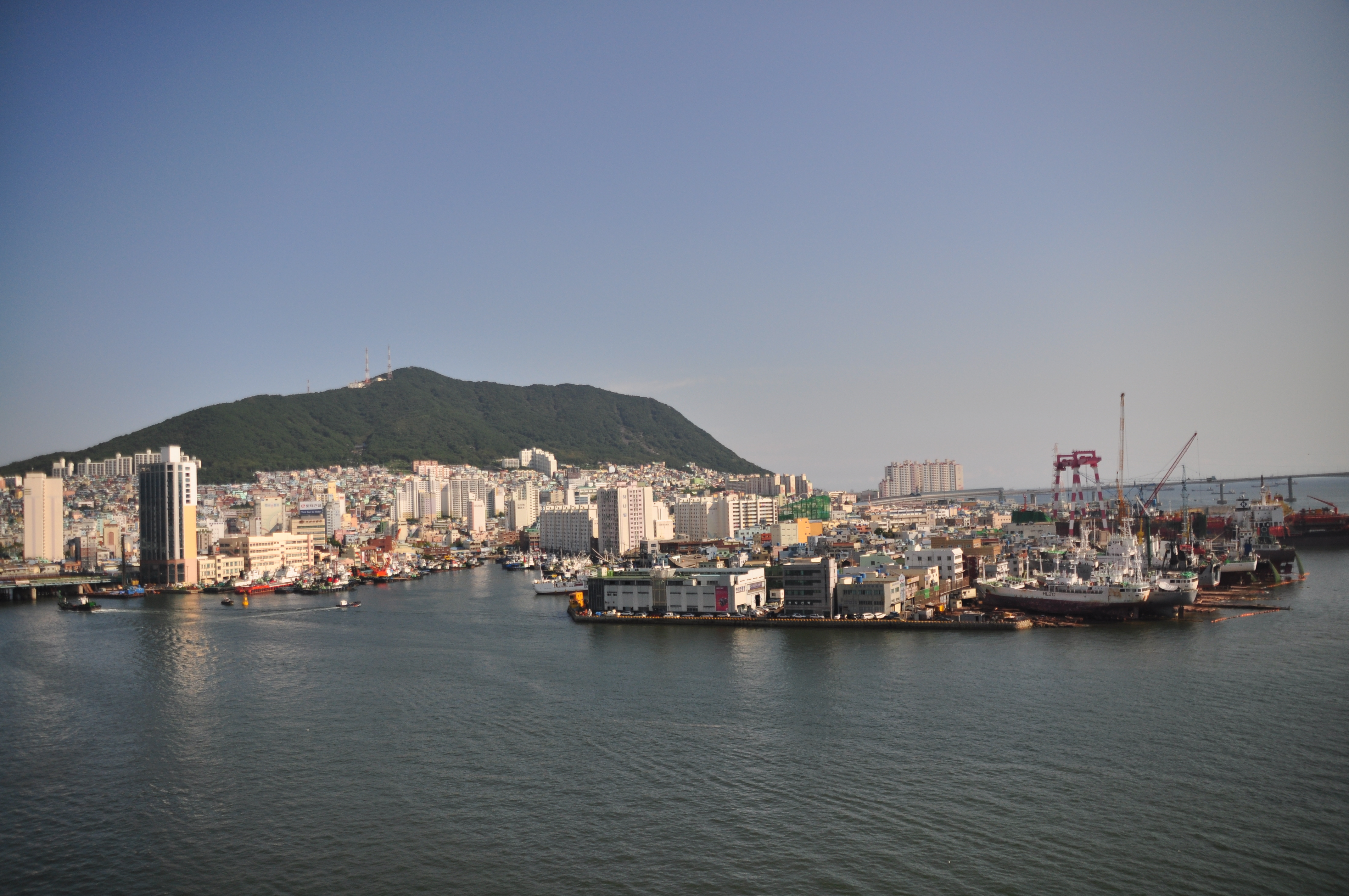 Youngdo-bu, Busan. Photograph from Flickr; author Jordi Sanchez Teruel; license of cc-by-sa-2.0.